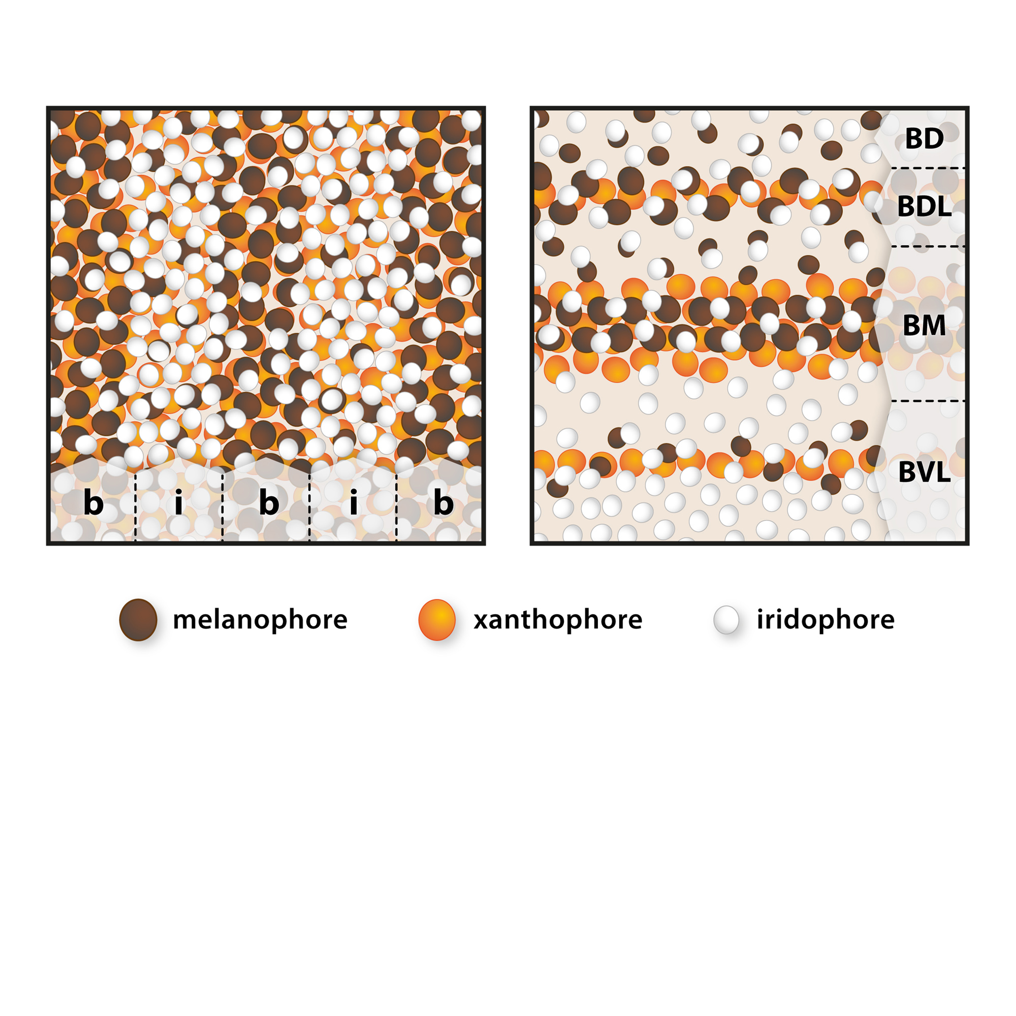 Schéma de l'organisation des chromatophores à l'age adulte chez les espèces Copadichromis azureus (à gauche) et Dimidiochromis compressiceps (à droite) tiré et modifié de l'article de Hendrick et al. (2019)